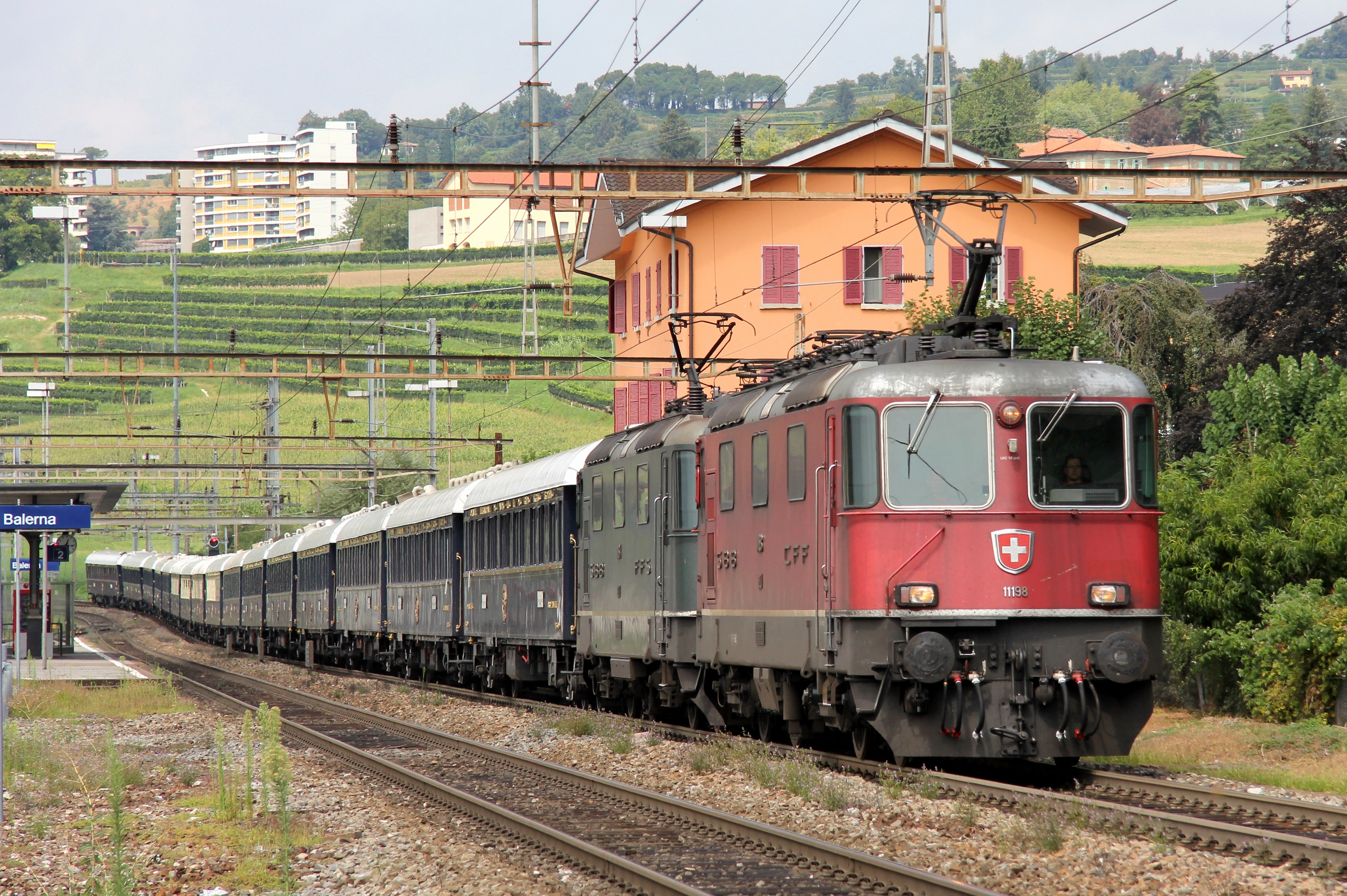 The SBB Re 4/4 II 11198 and 11161 ahead of the Venise-Simplon-Orient-Express 13467 Calais - Venezia Santa Lucia passing through Balerna train station.